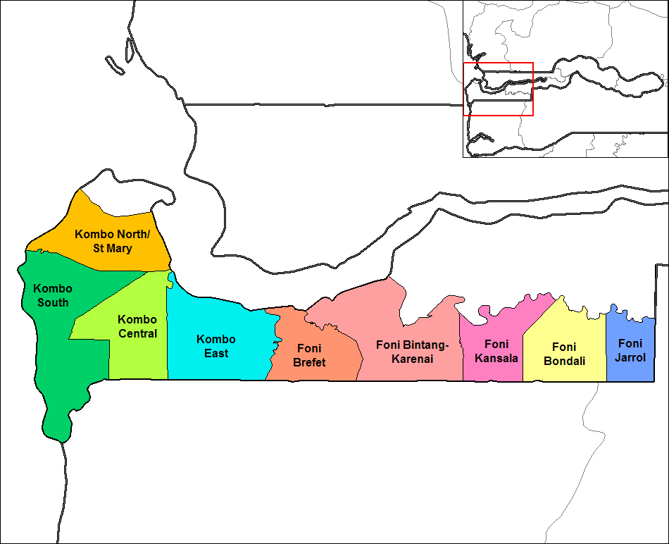 Map of the districts of Western division in The Gambia. Created using MapInfo Professional v8.5 and various mapping resources.